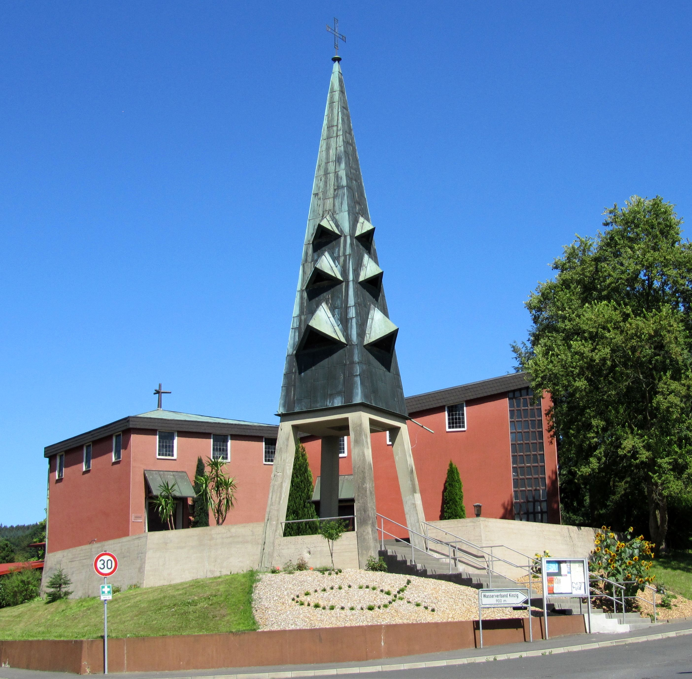 Church St. John in Wächtersbach-Neudorf, Germany